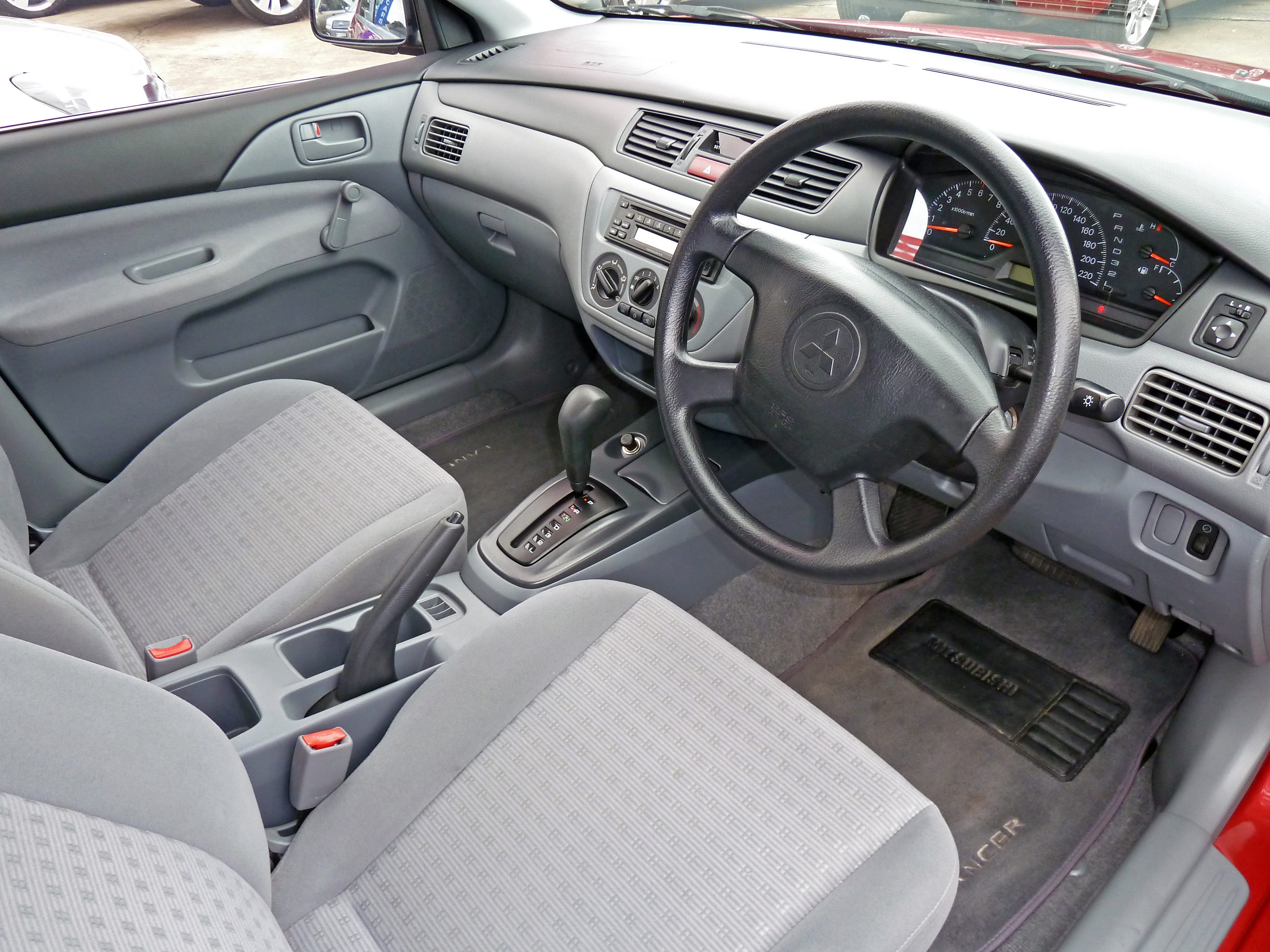 2005 Mitsubishi Lancer (CH MY05) ES sedan. Photographed at Suttons Holden, Chullora, New South Wales, Australia.